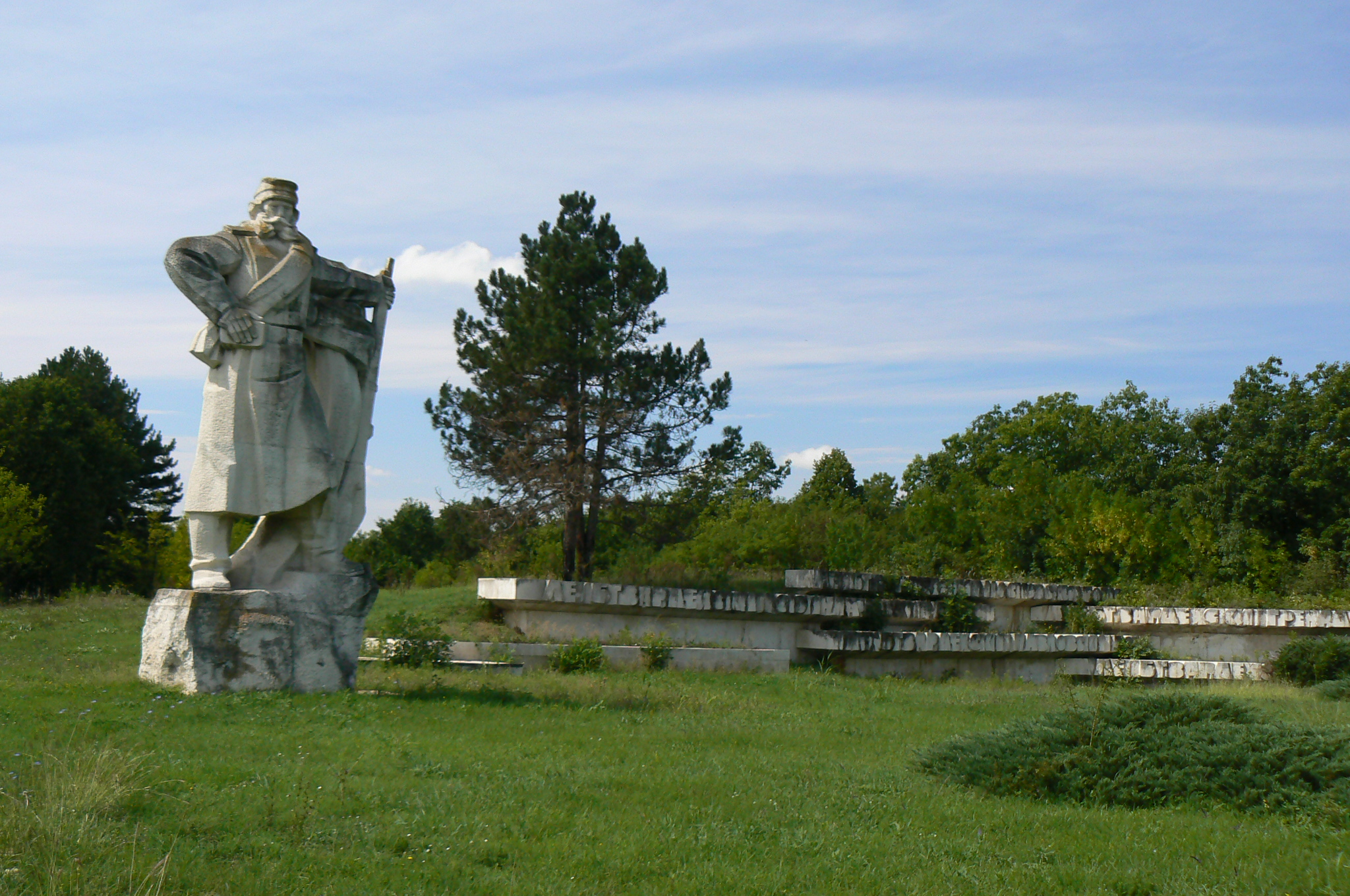 Monument in Park Lavrov, near village Gorni Dubnik, Bulgaria